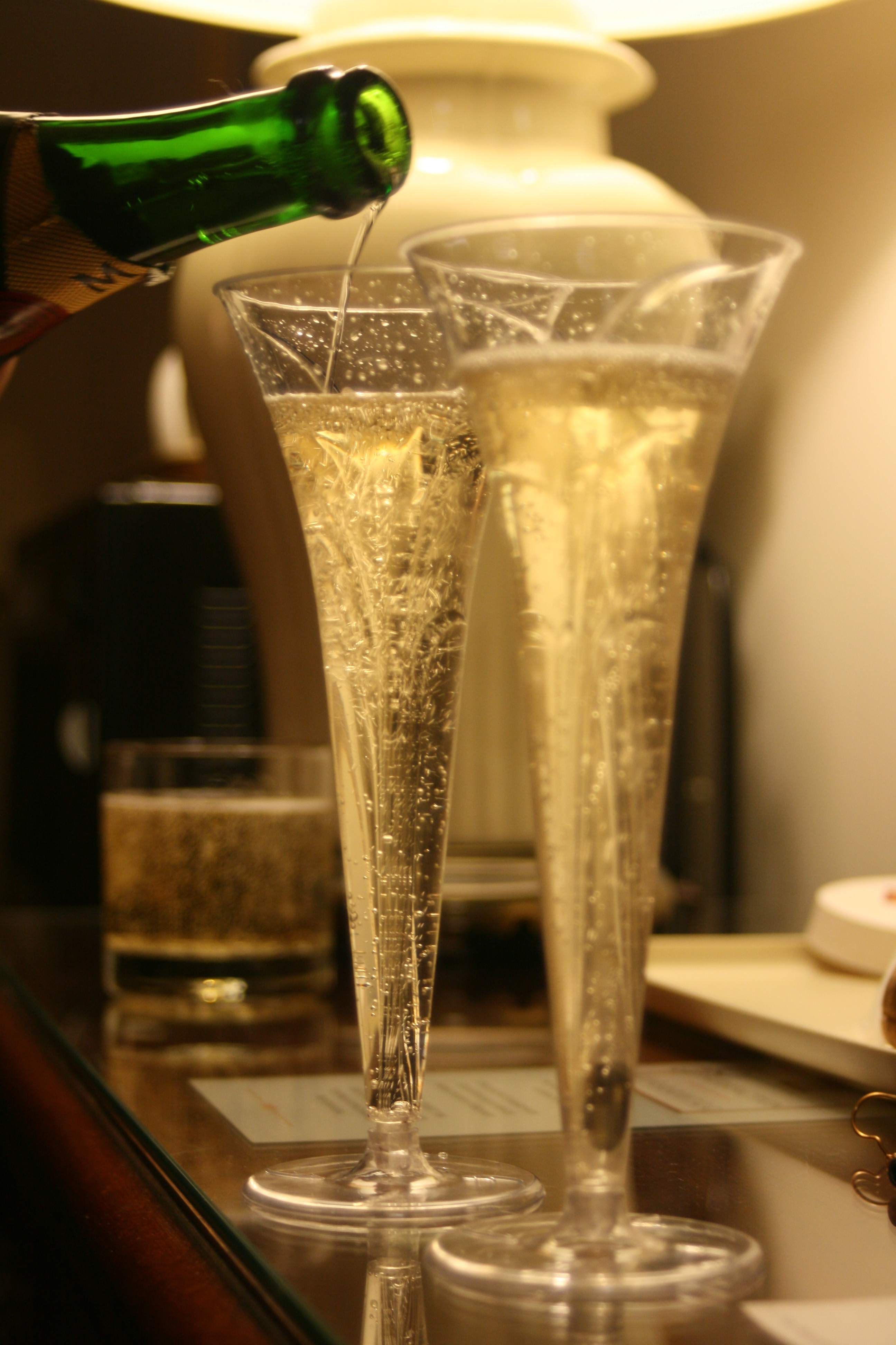 A picture depicting the beading and steady upward stream of Champagne bubbles as two glasses are being poured.